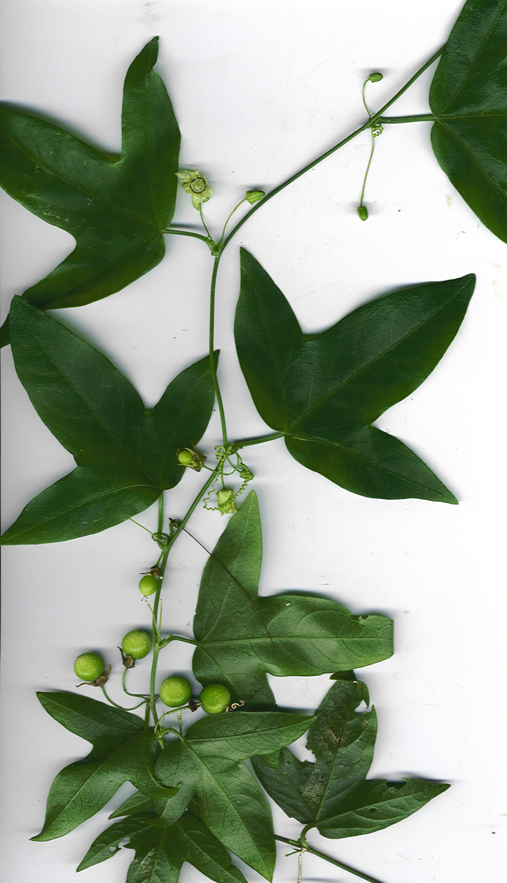 Passiflora suberosa (vine). Location: Maui, Piiholo